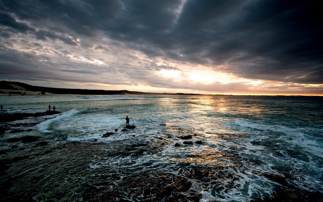 Blackhall Colliery Fisherman